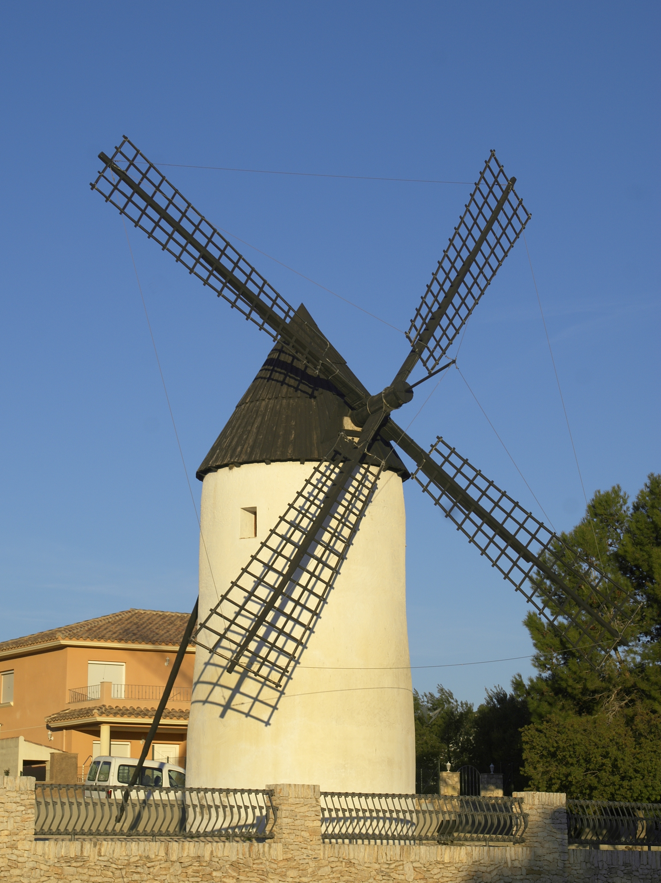 Windmill of el Perelló, Catalonia, Spain.